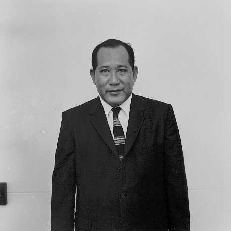 Amata Kabua